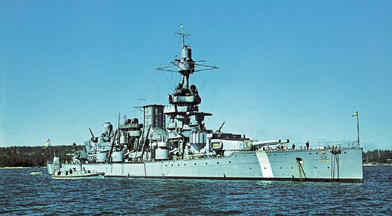 A picture of the Swedish battleship HMS Sverige.